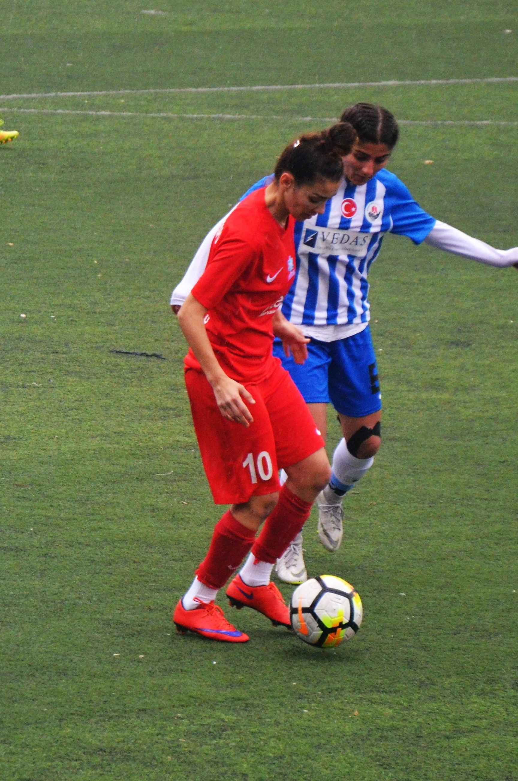 Mariem Houij of Ataşehir Belediyespor (red) in the 2018-19 Turkish Women's First League.